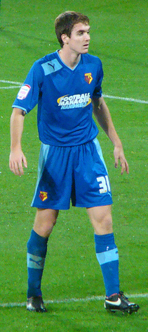 Hoban in Watford's away kit